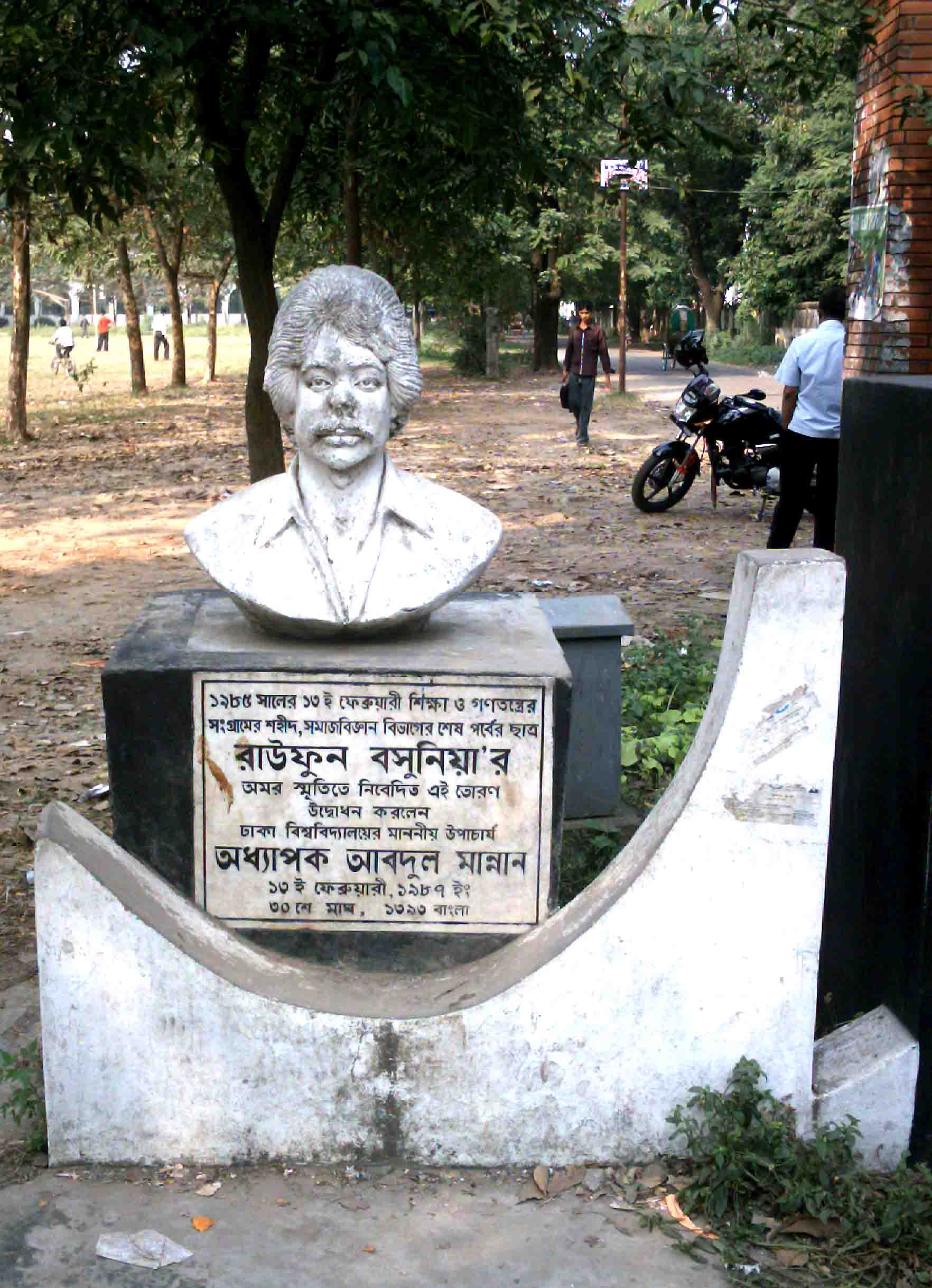 Statue of Raufun Basuniya. Famous Student leader of Dhaka university. Died at 1985, during movement against autocratic government of General Ershad.